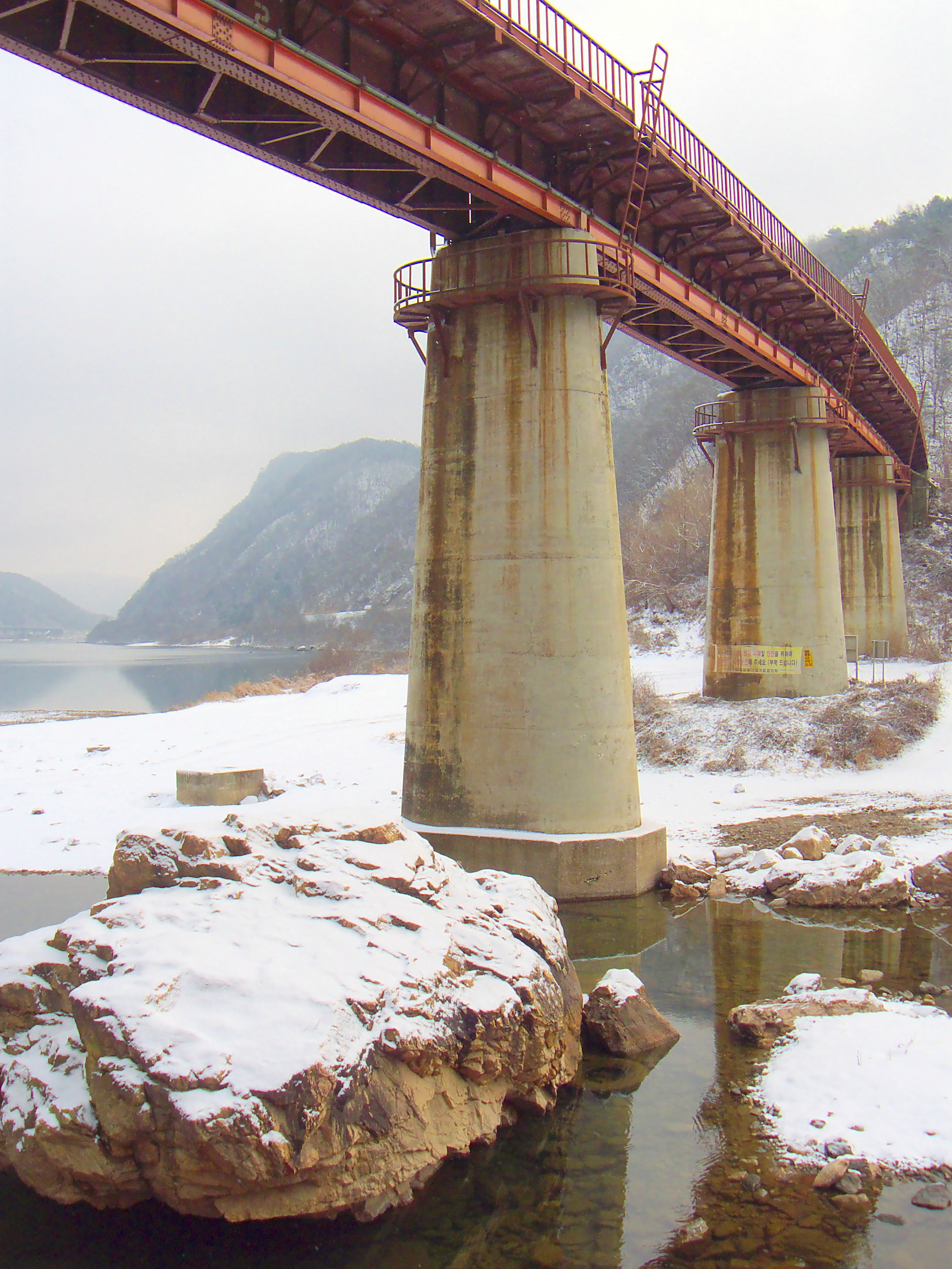 Gangchon, South Korea